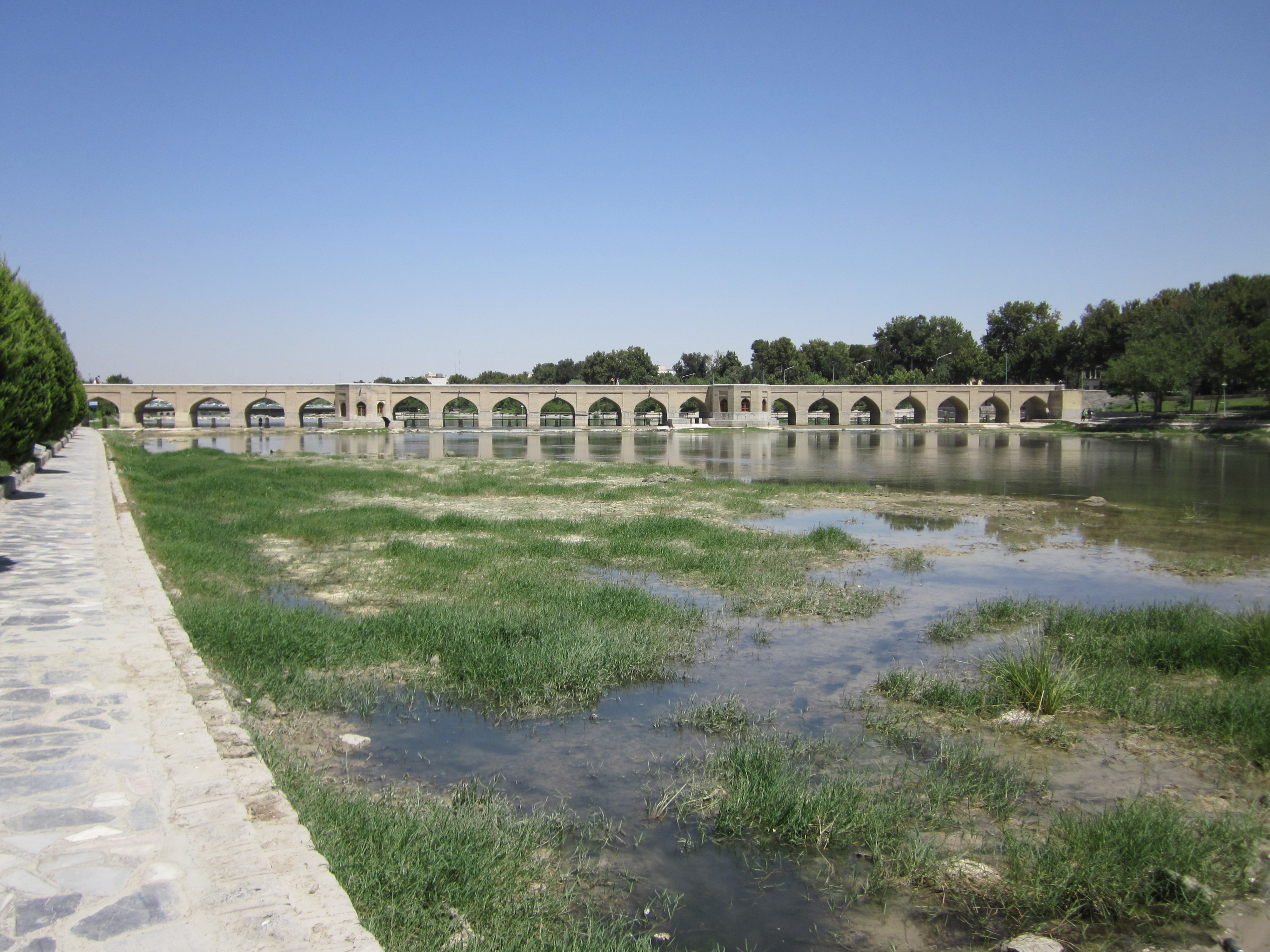 Choobi Bridge, Isfahan, Iran.